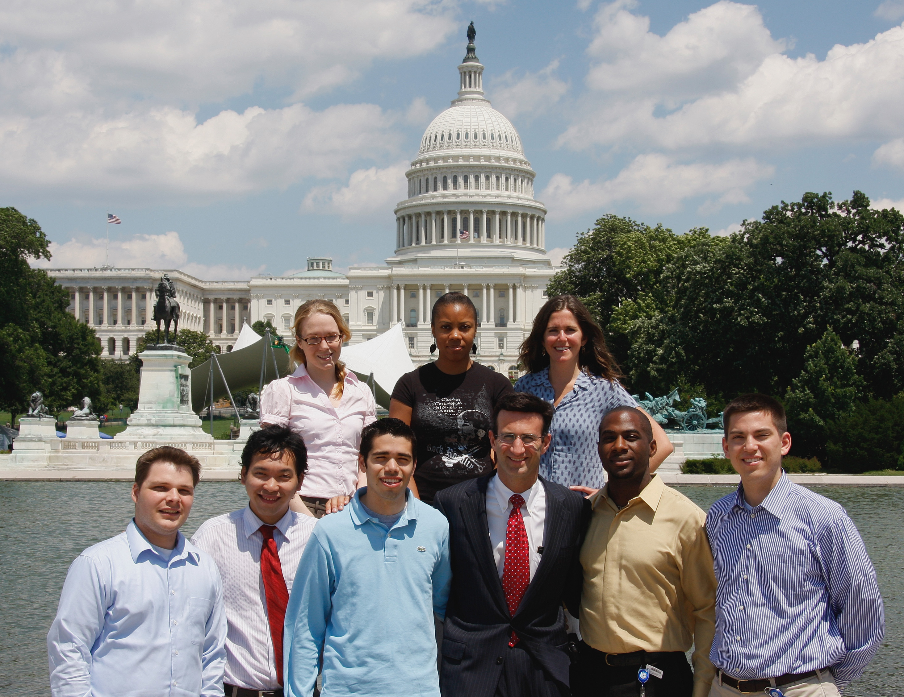 CBO interns